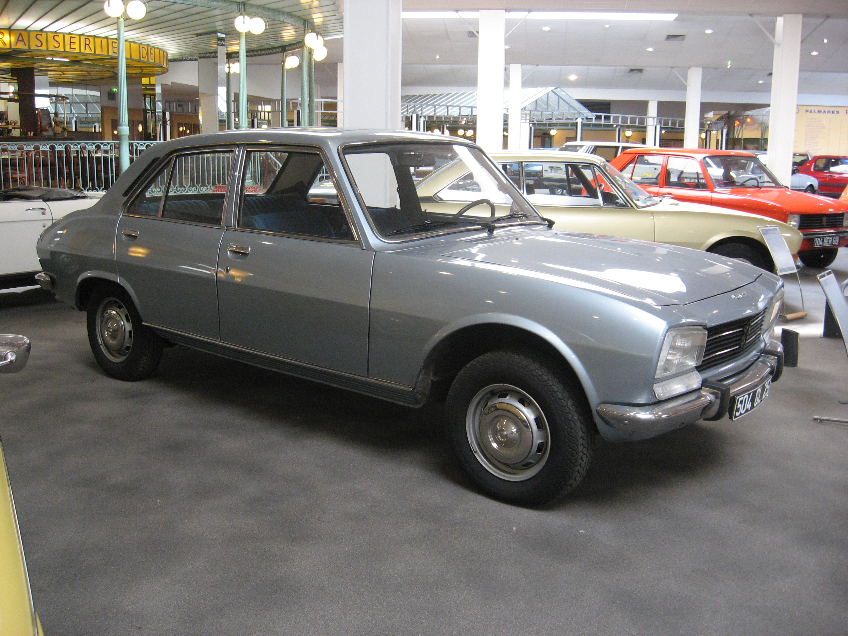 Subject: Peugeot 504 Date: April 26th, 2011 Place/Country: Musée de l'Aventure Peugeot, Sochaux (F) I release all rights in the public domain.